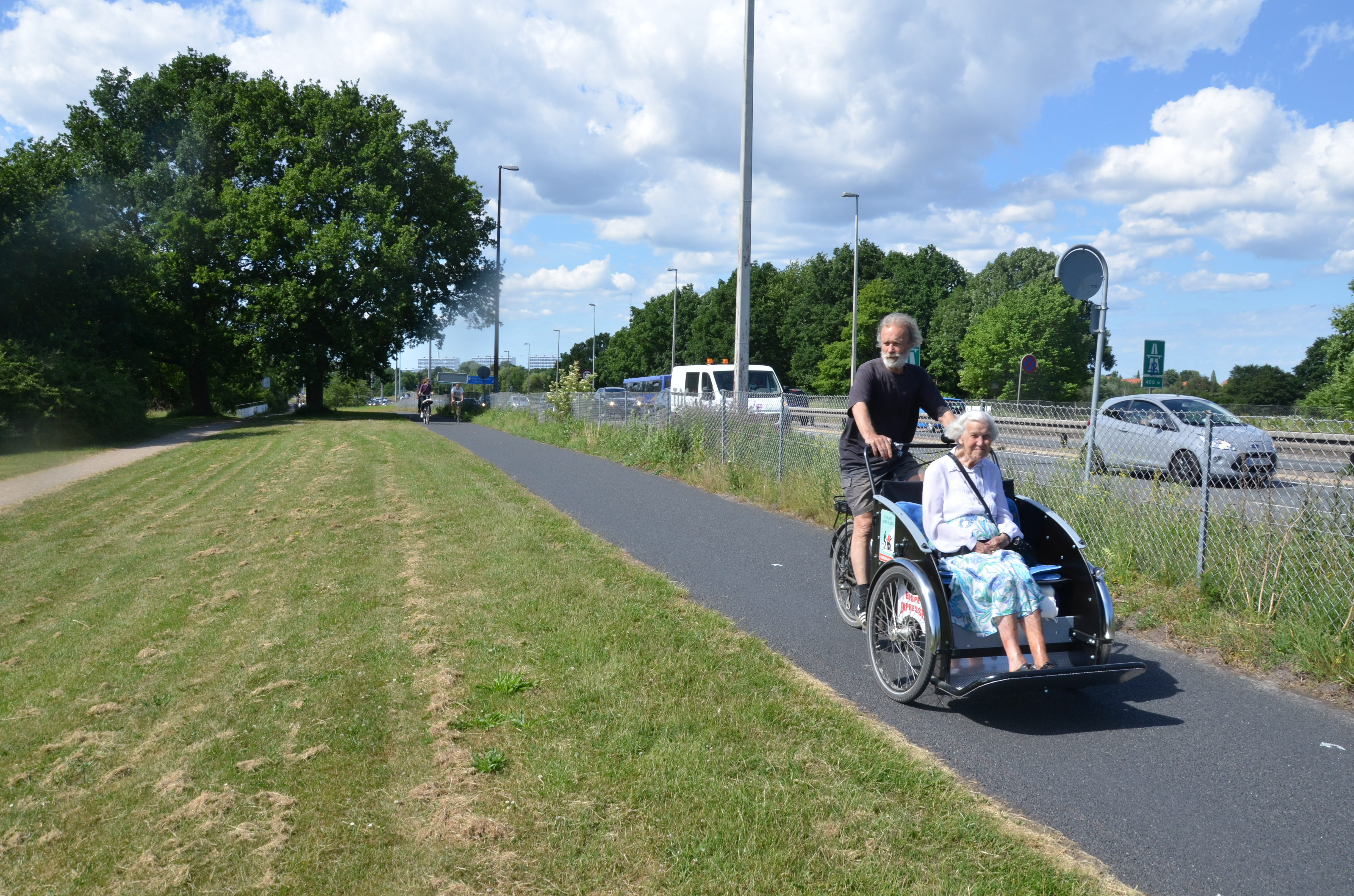 An elderly woman enjoying a ride in the countryside in a "Cycling without Age" rickshaw